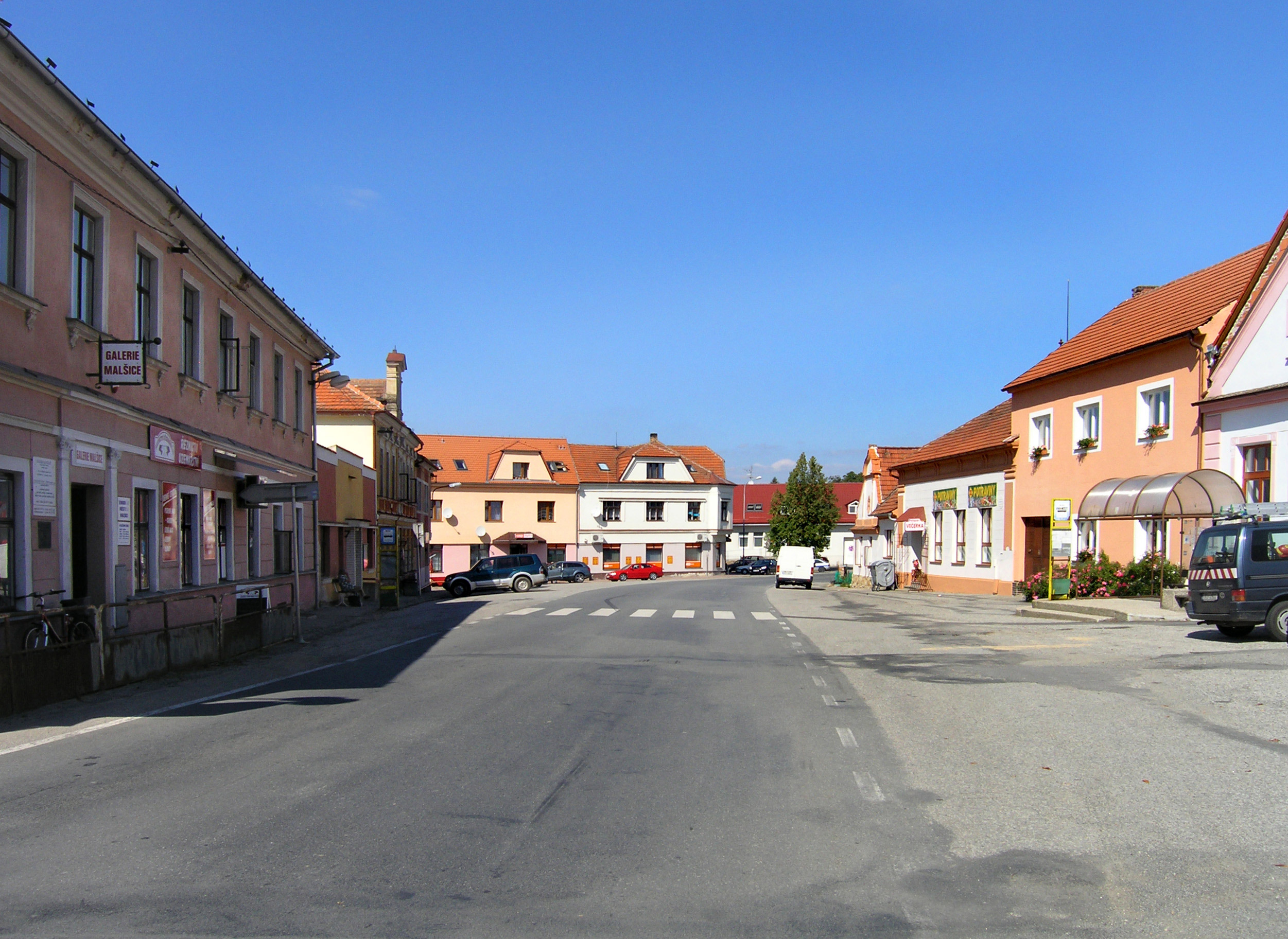 Main square in Malšice, Czech Republic